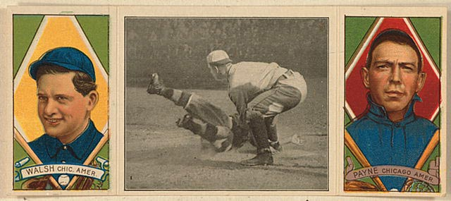 Hassan Triple Folders (T202) baseball card for Fred Payne and Ed Walsh